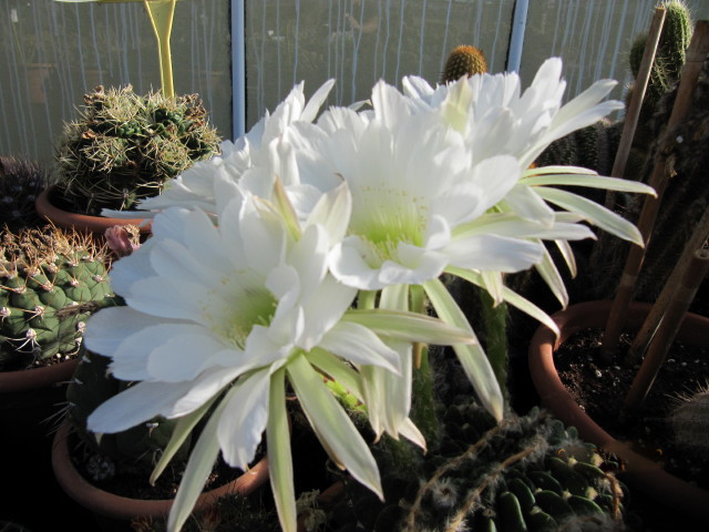 Part of the owner's private cactus collection at Manor Nurseries, Angmering.